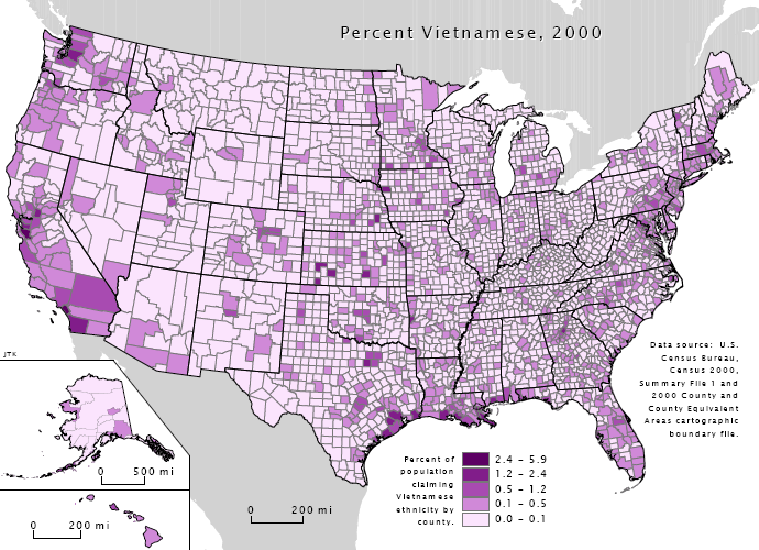 Diagram indicating Vietnamese American settlement in the United States. Image as based on the census 2000 by the U.S. Census Bureau. Badagnani (talk) 07:45, 23 May 2009 (UTC)